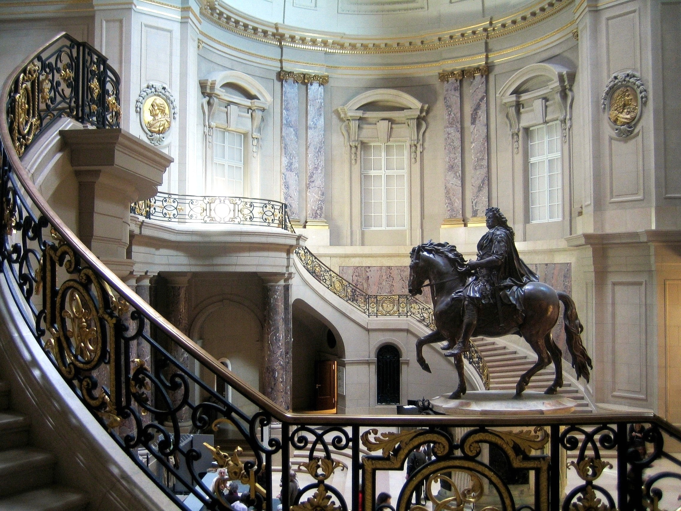 Bode-Museum Berlin. The hall beneath the Great Cupola.